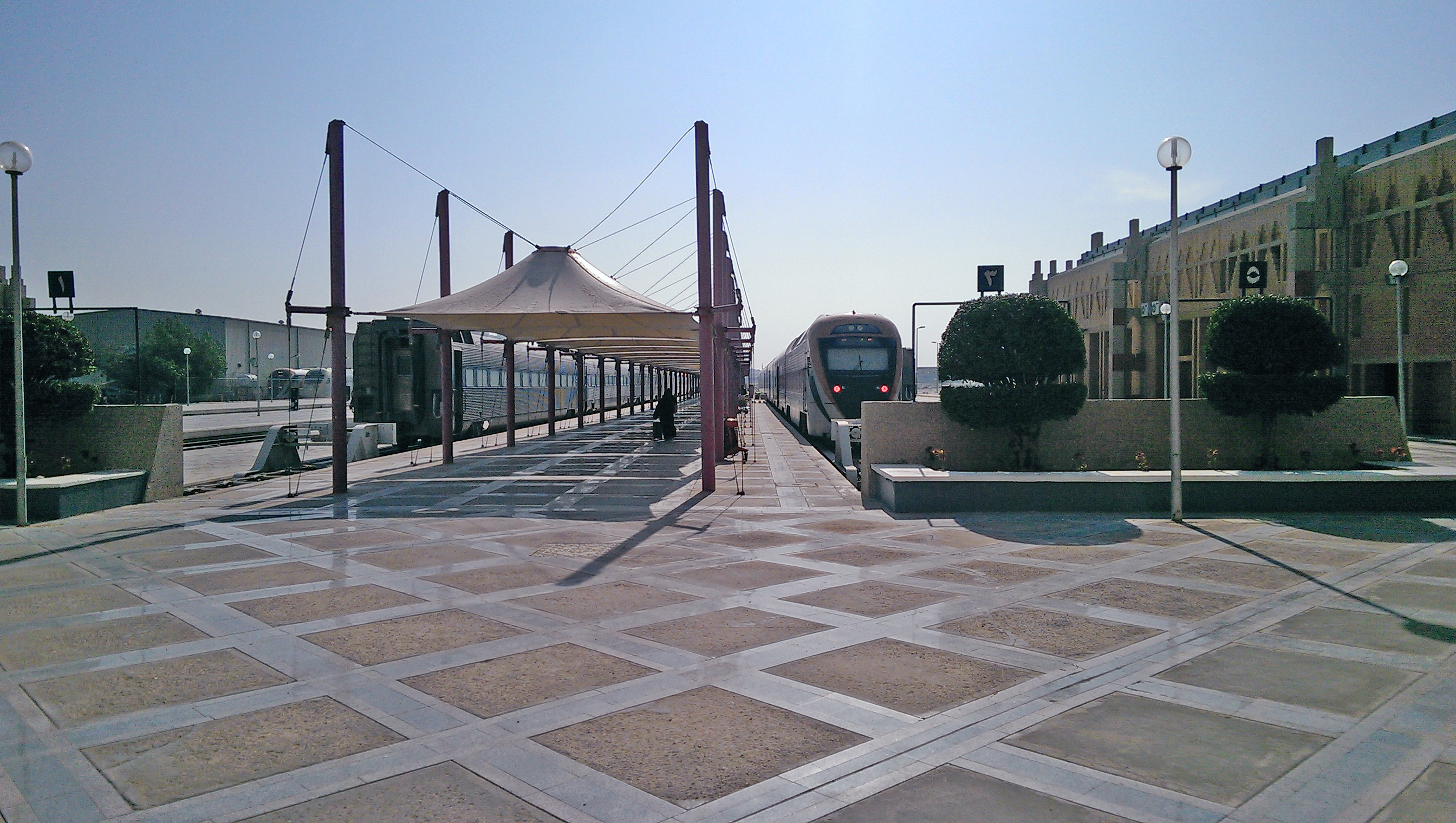 The Riyadh-Dammam line connects the capital to the East coast in just a few hours.